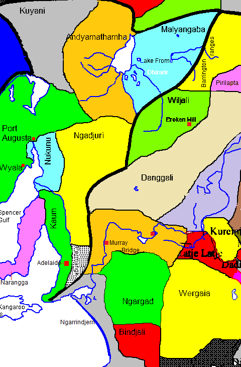 map of the various Australian Aboriginal tribes around Adelaide South Australia